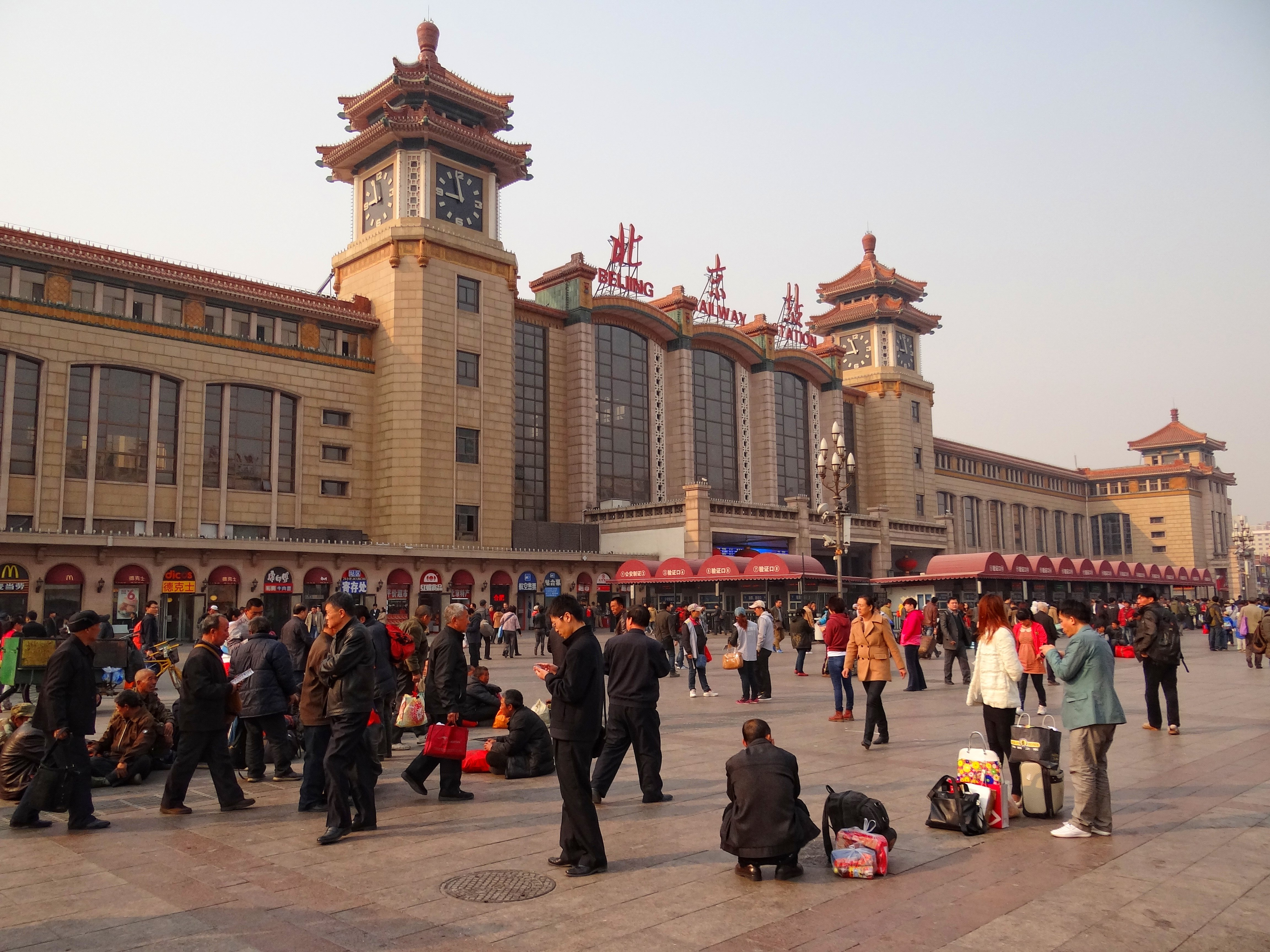 The facade of Beijing Railway Station seen from the north.